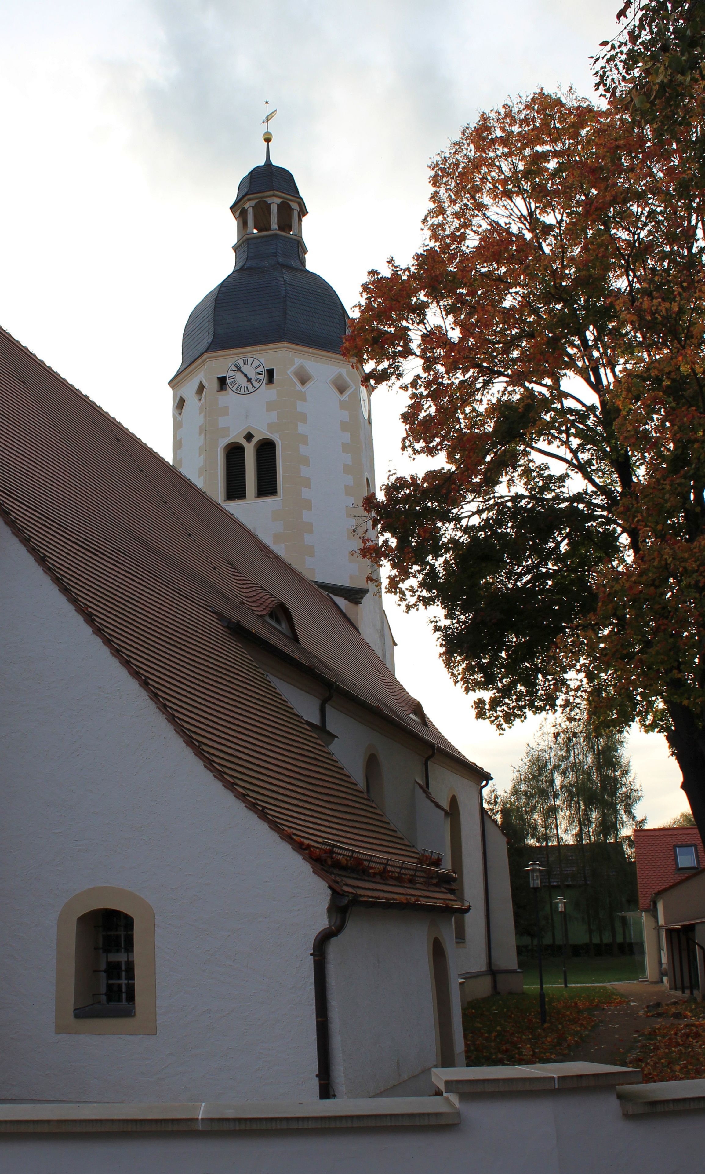 St. Nicholas Church in Uebigau (Uebigau-Wahrenbrück, Elbe-Elster district, Brandenburg)